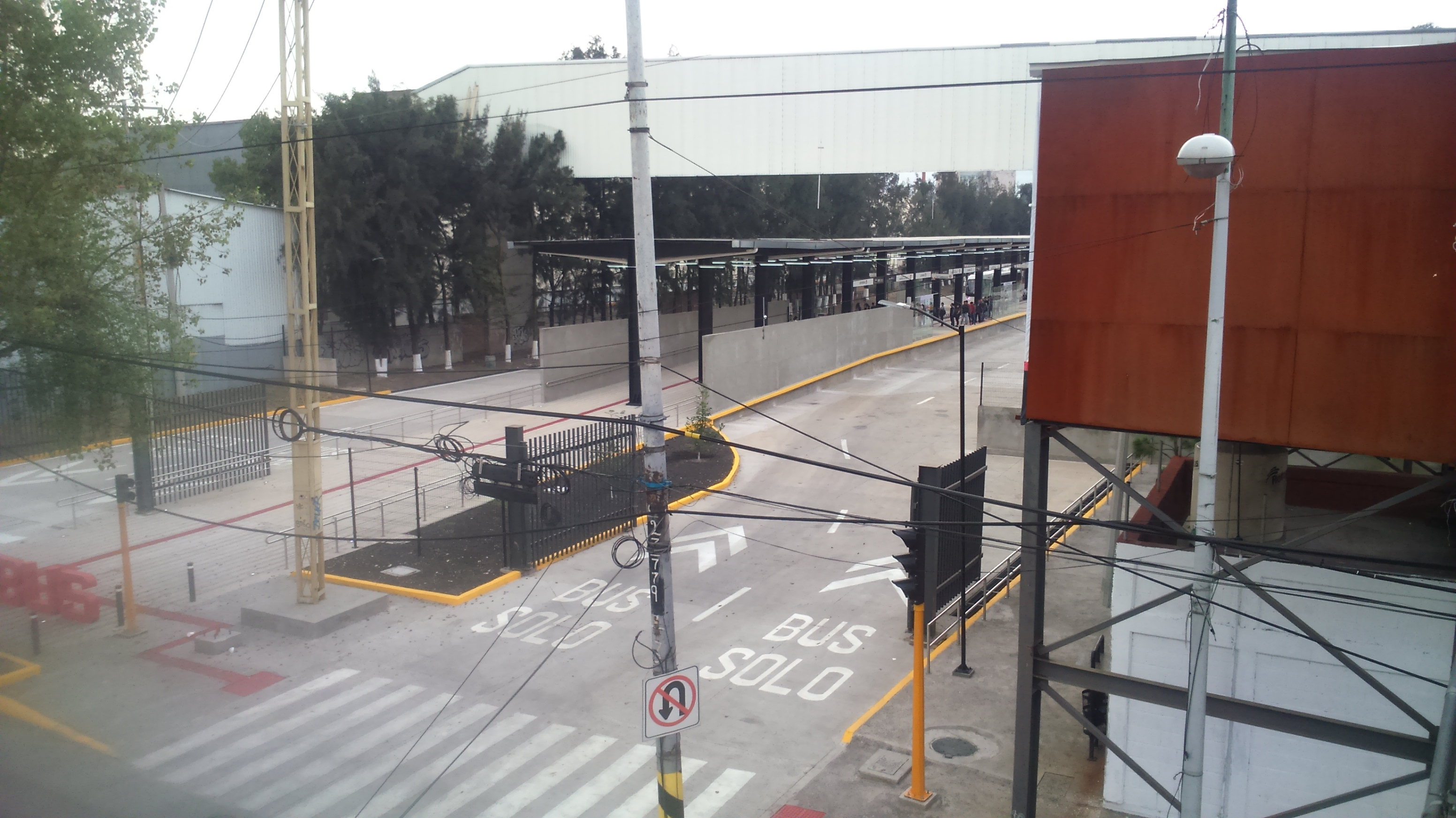 Picture of Lechería Mexibús station (only for Servicio Exprés).